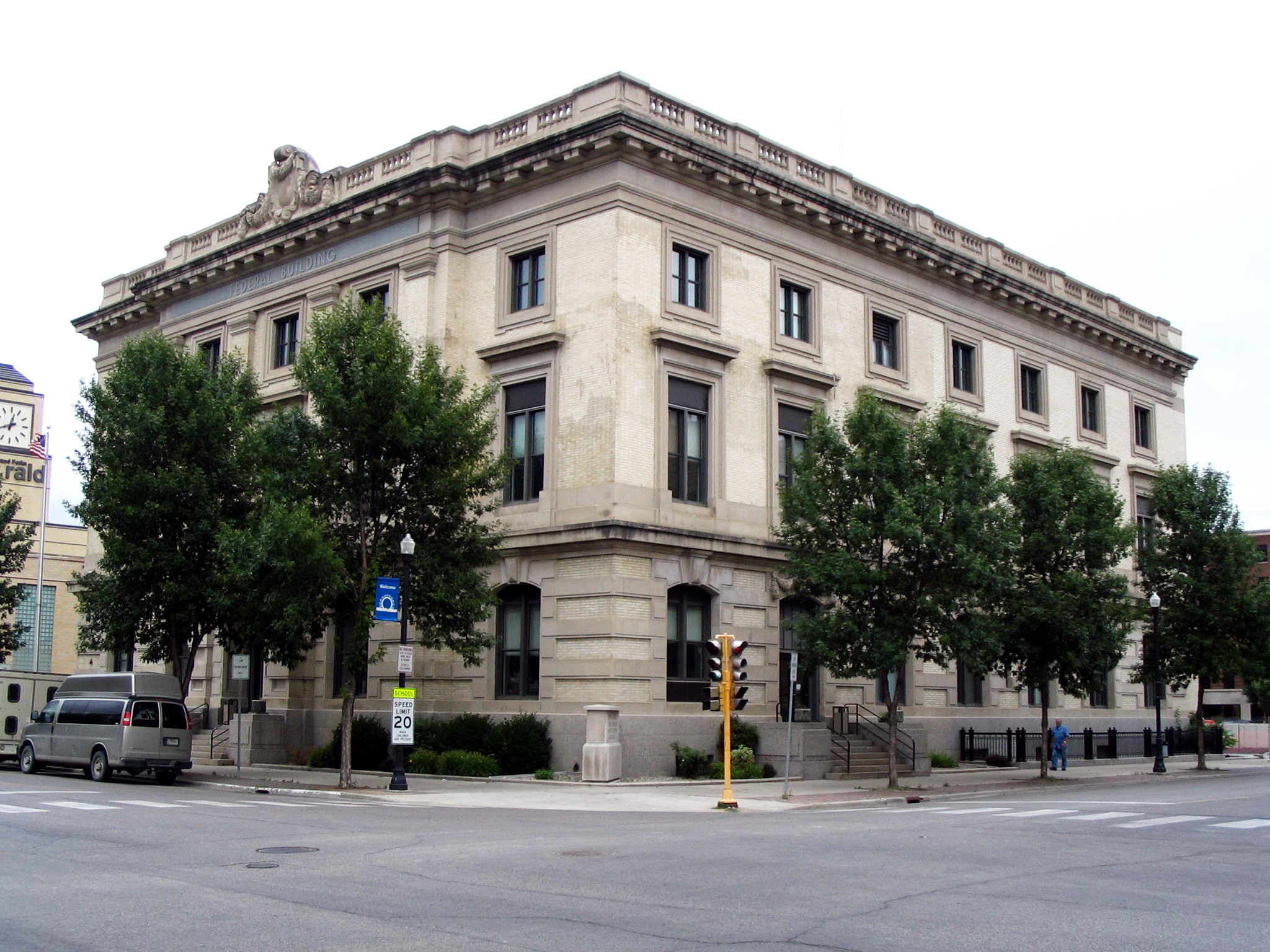 United States Post Office and Federal Building, Grand Forks, North Dakota. This building is listed on the National Register of Historic Places.